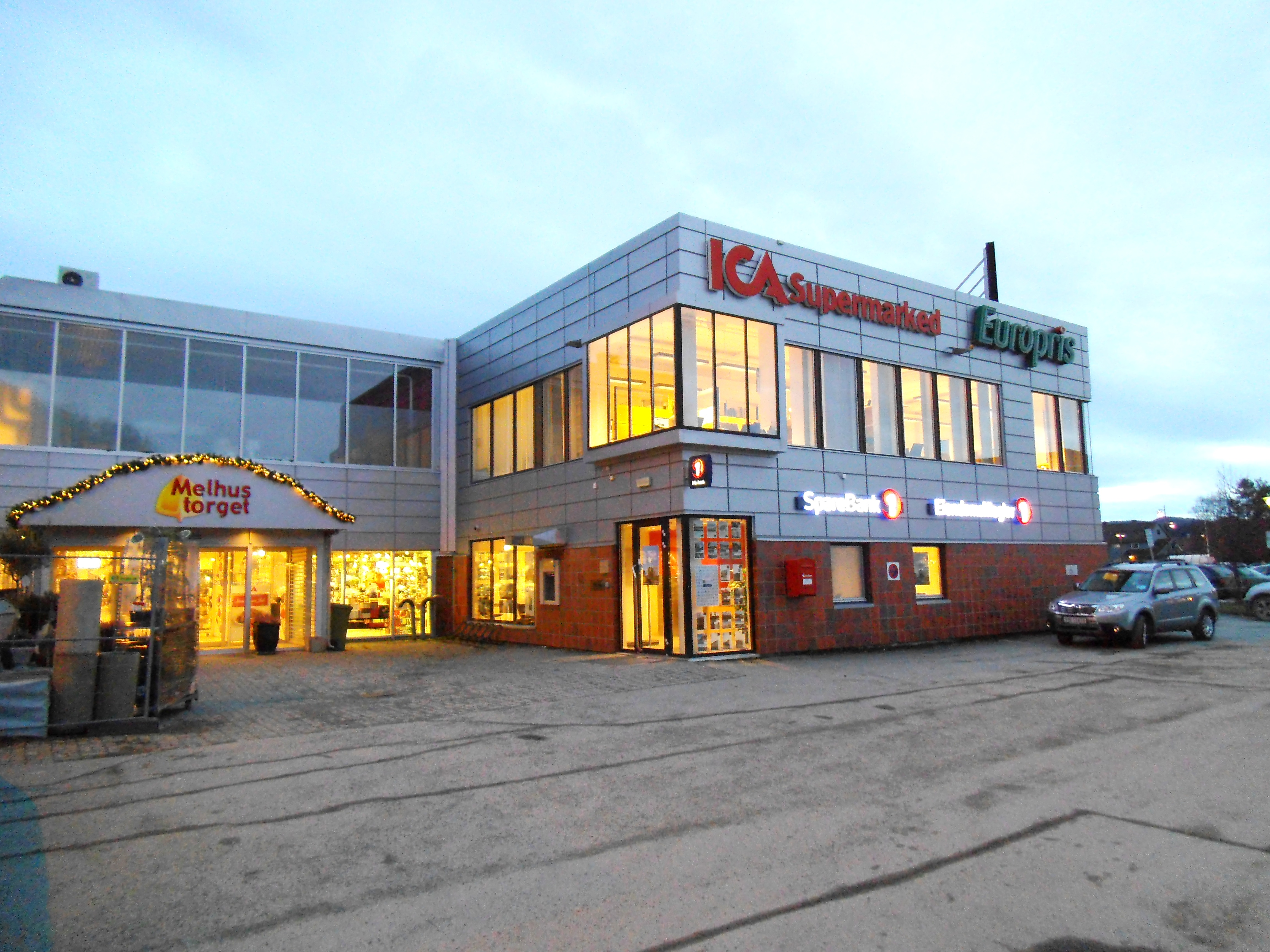 Melhustorget. A shopping mall in Melhus. West side entrance.